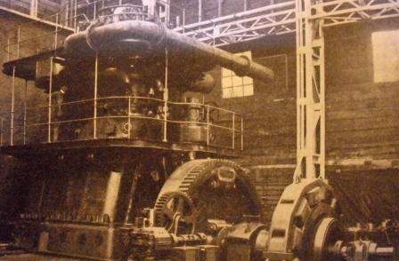 Krupp Germaniawerft, one cylinder experimental motor 2000 PS (HP)